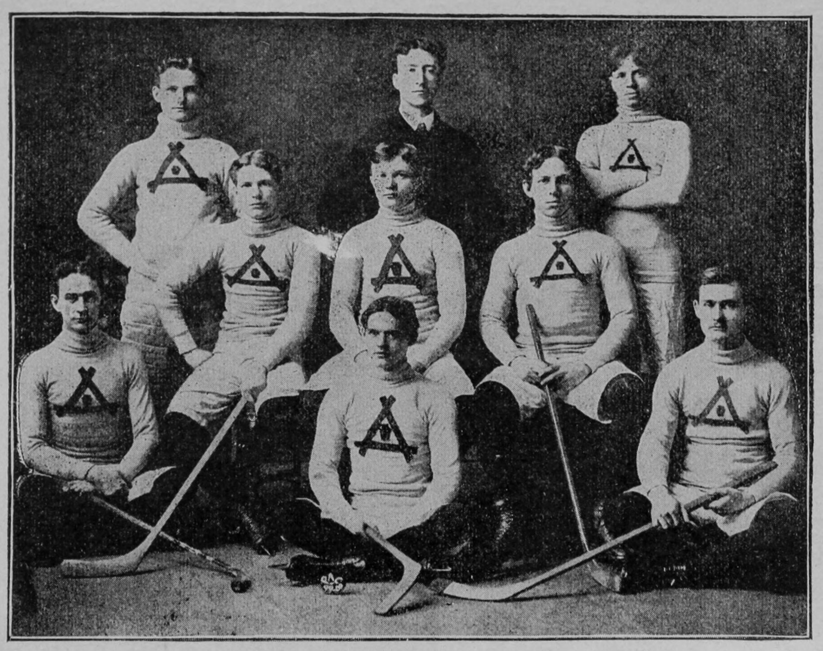 Ice hockey club Pittsburgh Athletic Club of the Western Pennsylvania Hockey League around 1900.